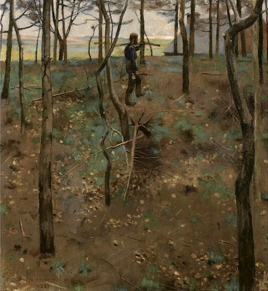 The Woodcutter